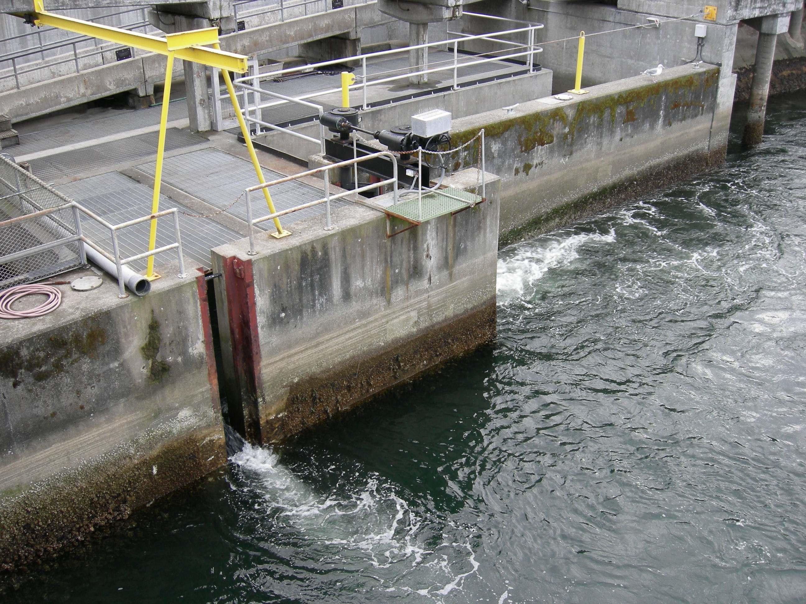 Entrance to the fish ladder, Hiram M. Chittenden Locks, Seattle, Washington, USA. Attraction water is visible, coming out of two places at the bottom of the fish ladder.